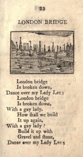 A page from Tommy Thumbs Pretty Song Book (1744) showing the beginning of "London Bridge is Falling Down".